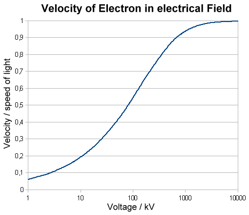 Velocity of an electron in an electrical field.